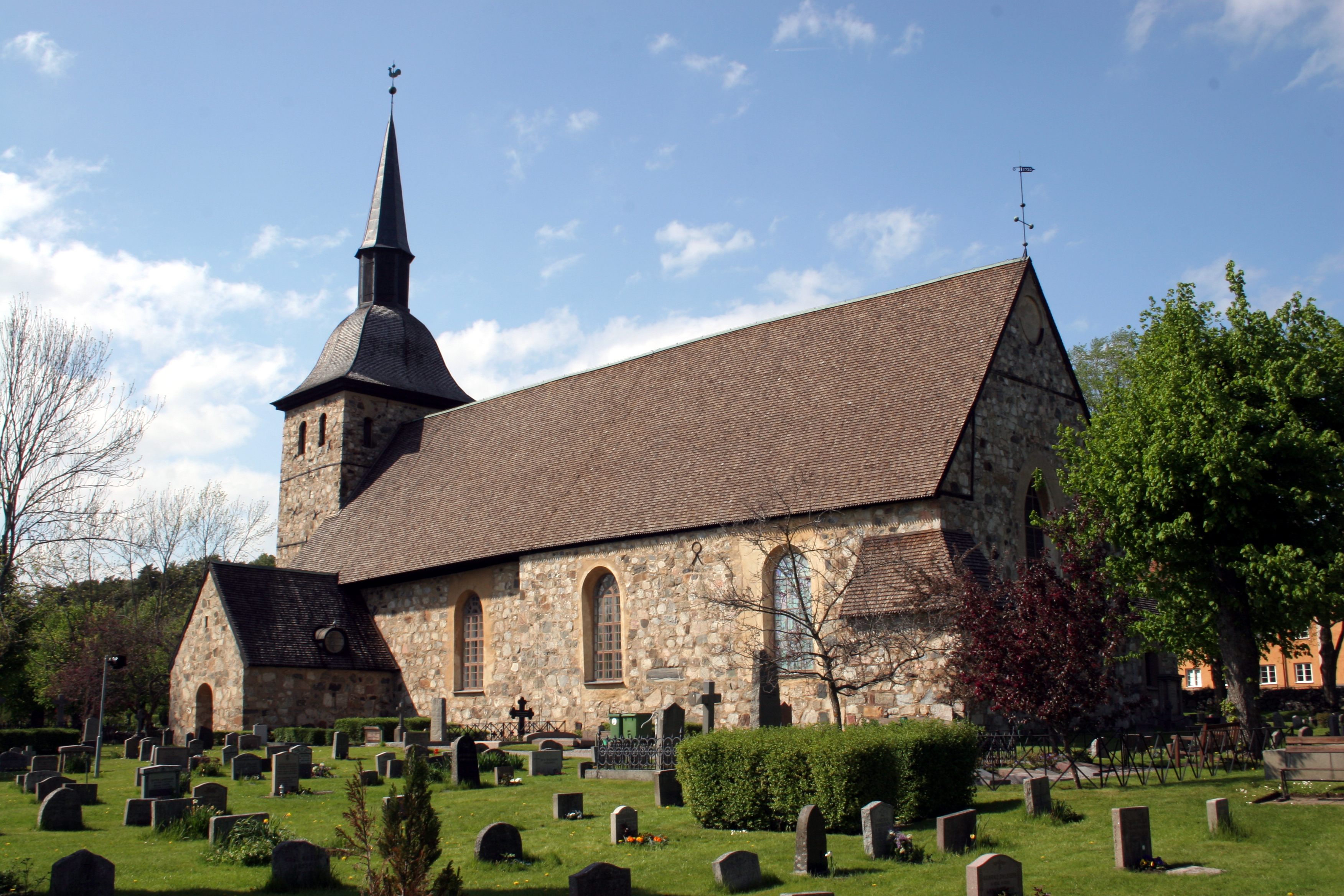 Botkyrka kyrka, Botkyrka, Stockholm, Sweden. The church i situated app. 20 km south of Stockholm city, close to the E4/E20 motorway. The oldest parts of the church are from the 12th century.